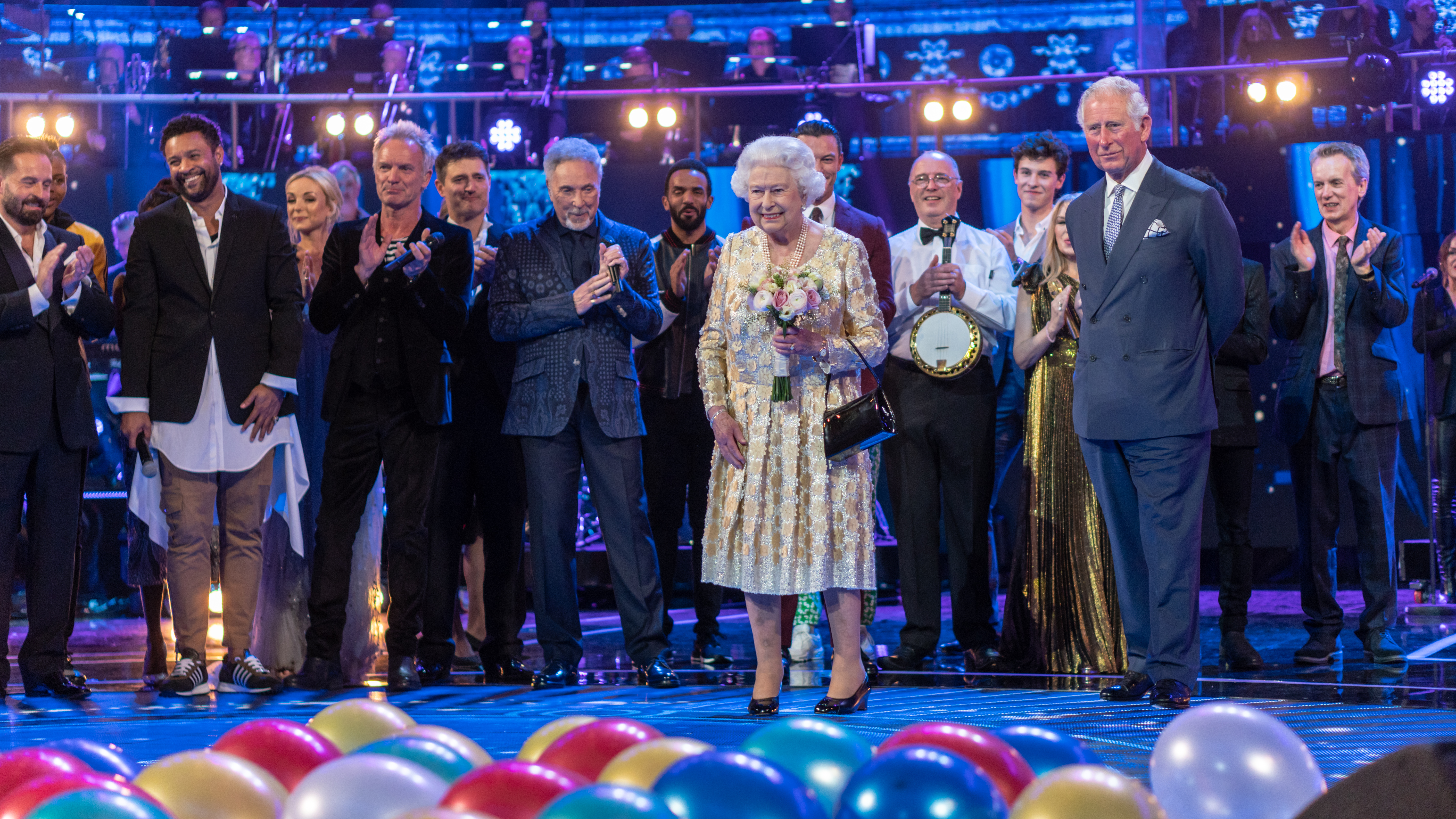 Musicians gather to perform at The Queen's Birthday Party